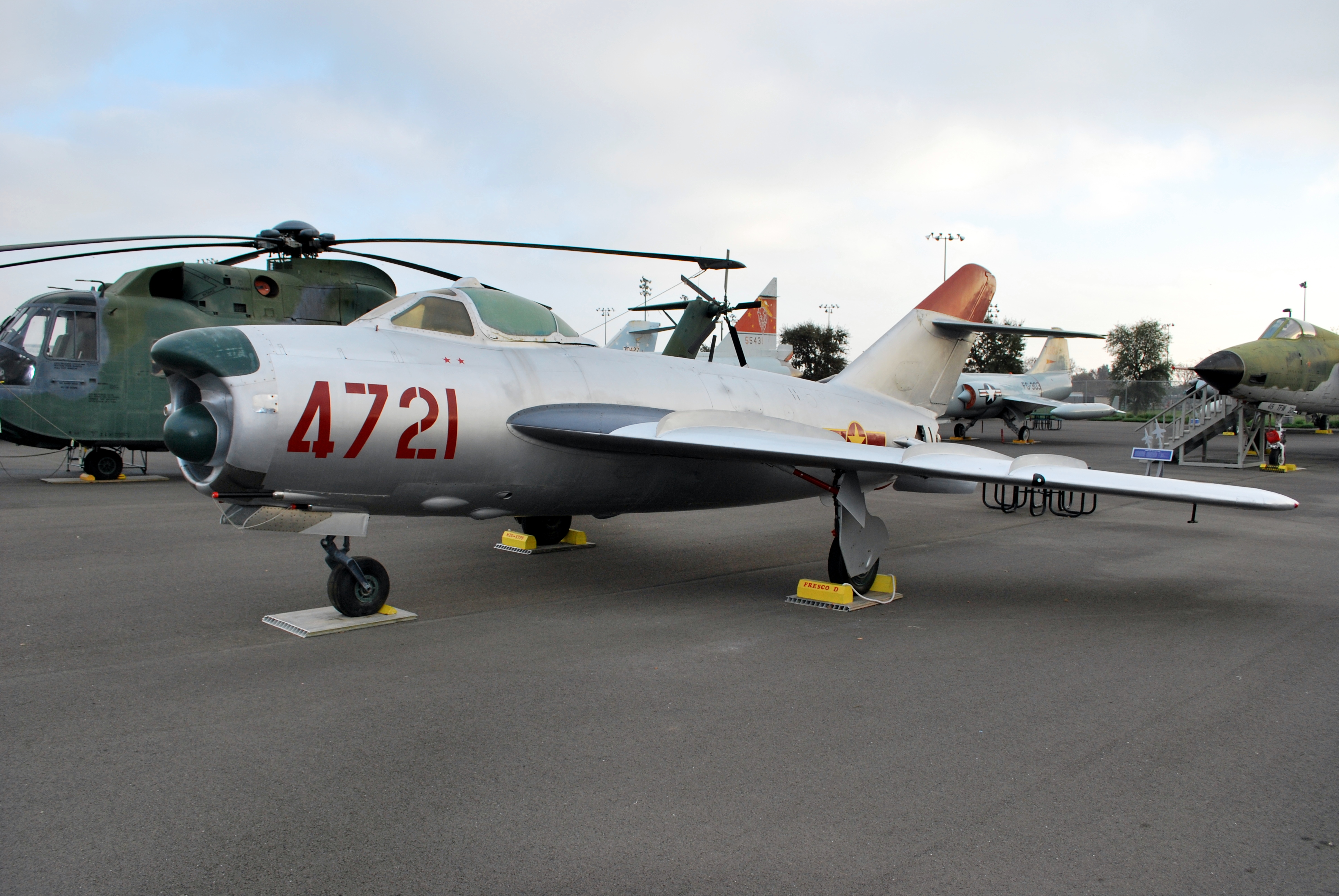 The Mikoyan-Gurevich MiG-17F "Fresco E". With a crew of one, this aircraft had a max ceiling of 57,000ft, a range of 510 miles and a speed of 710mph (Mach 0.975). The MiG-17F packed three 23mm cannons in the nose and two under-wing mounts for air-to-air rockets of bombs.